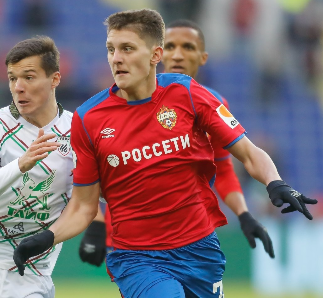 Igor Diveyev with PFC CSKA Moscow in a game against FC Rubin Kazan.